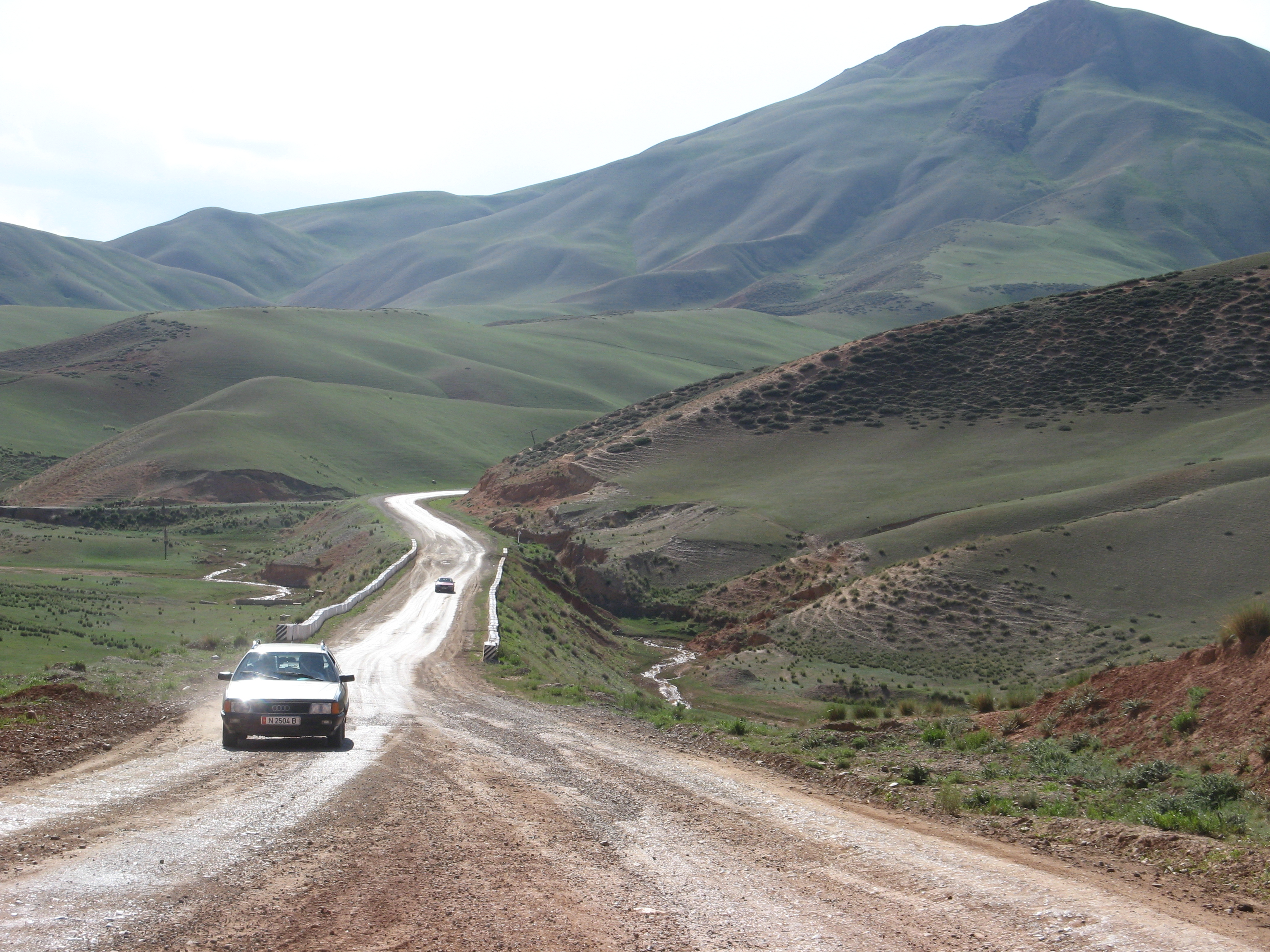 Crossing the Torugart into Kyrgyzstan